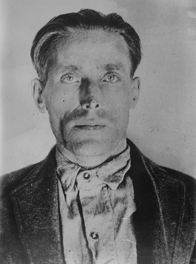 Photograph shows Joe Hill (1879-1915), born Joel Emmanuel Hägglund and also known as Joseph Hillström, a Swedish-American labor activist who was accused of murder and executed in 1915. (Source: Flickr Commons project, 2013)